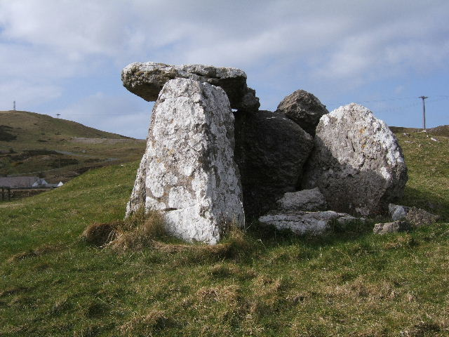 Lletty'r Filiast, Burial Chamber This type of monument is a portal dolmen and consists of a small stone chamber originally covered by an earth mound. It is from the later Stone Age of about 6,800 years ago called the Neolithic period.